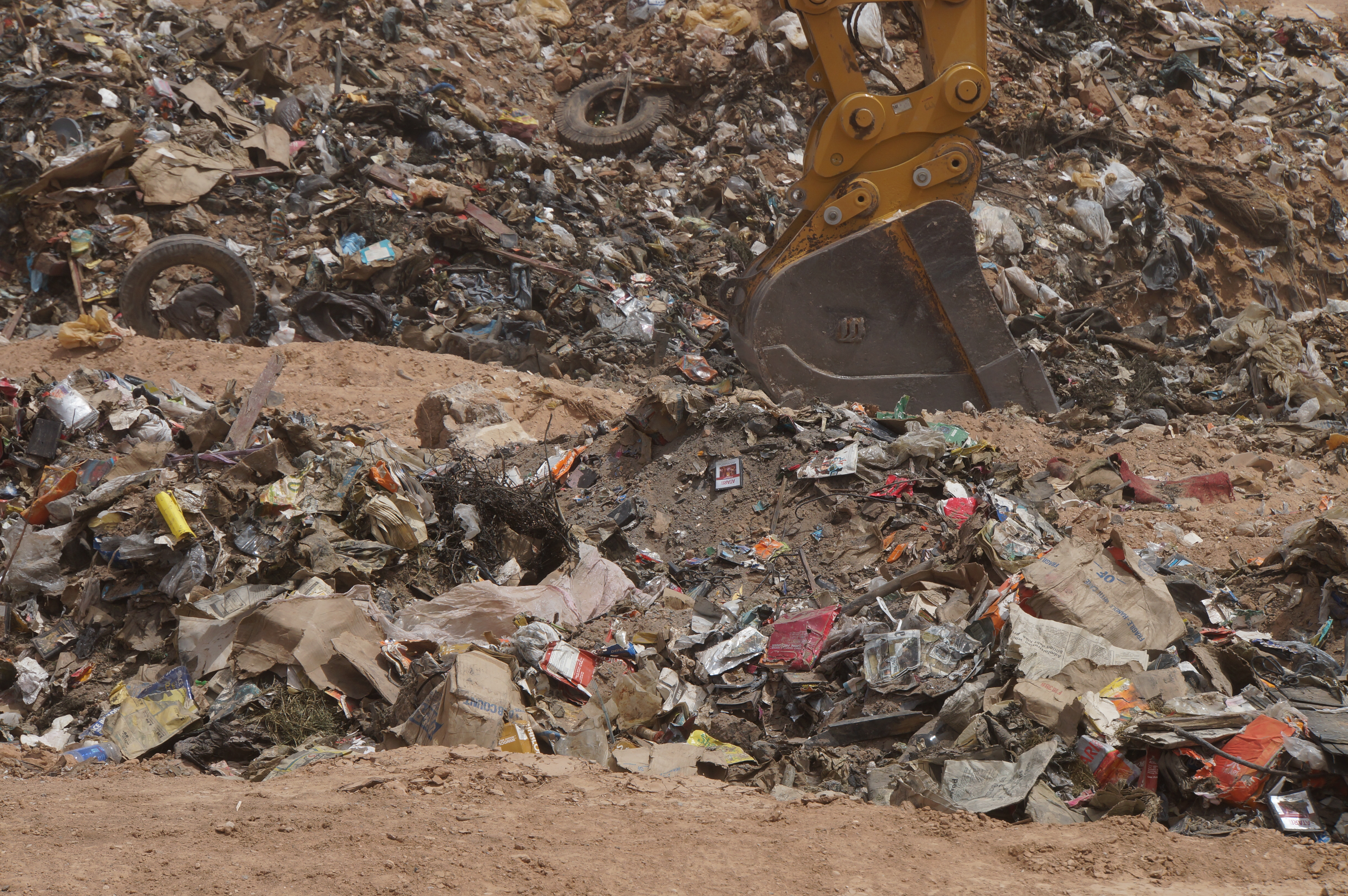 What Atari buried, beyond E.T.